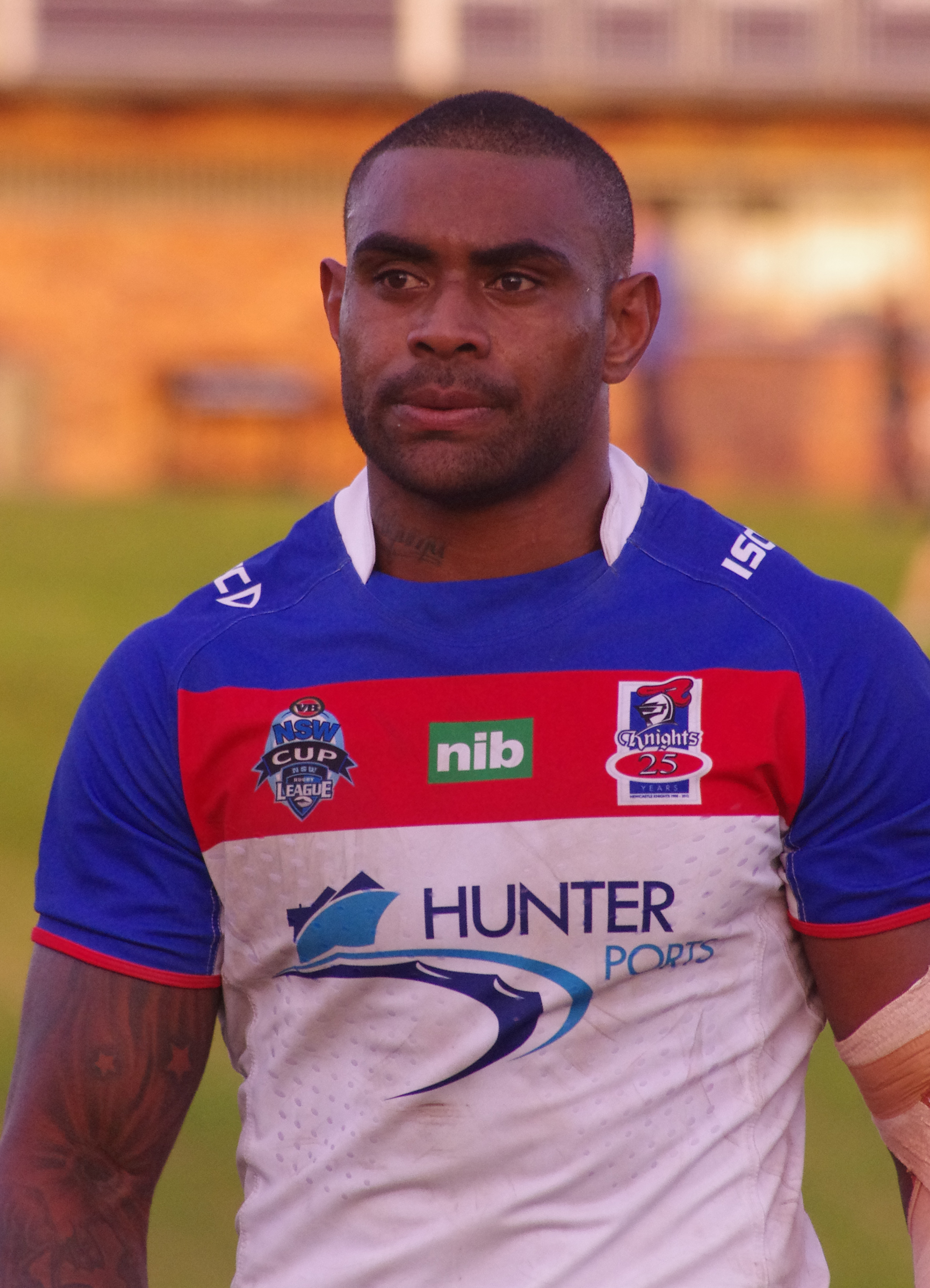 Wes Naiqama